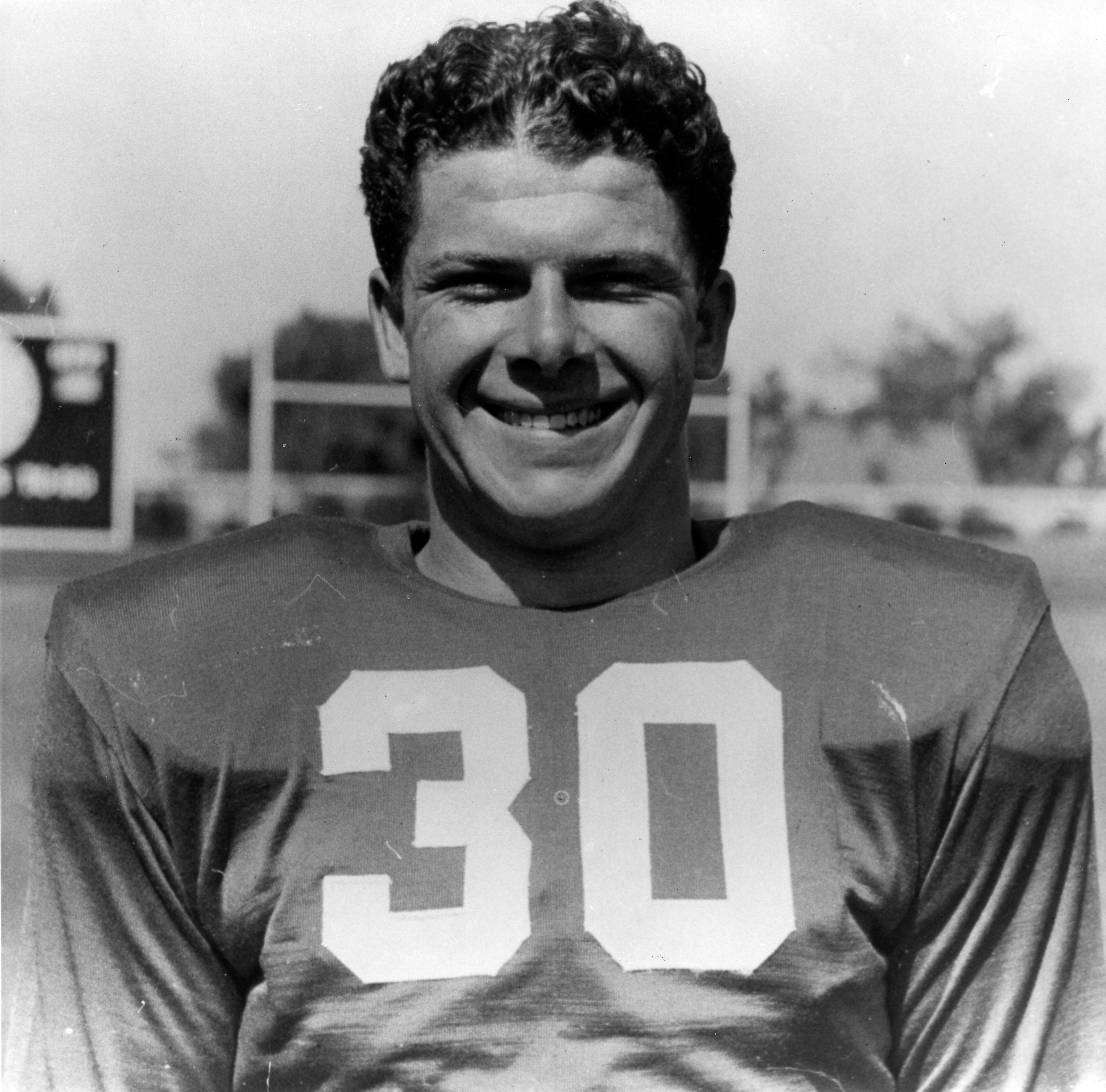 In his pre-Marine Corps days, General Lowell E. English was a member of Varsity Football Team at the University of Nebraska.